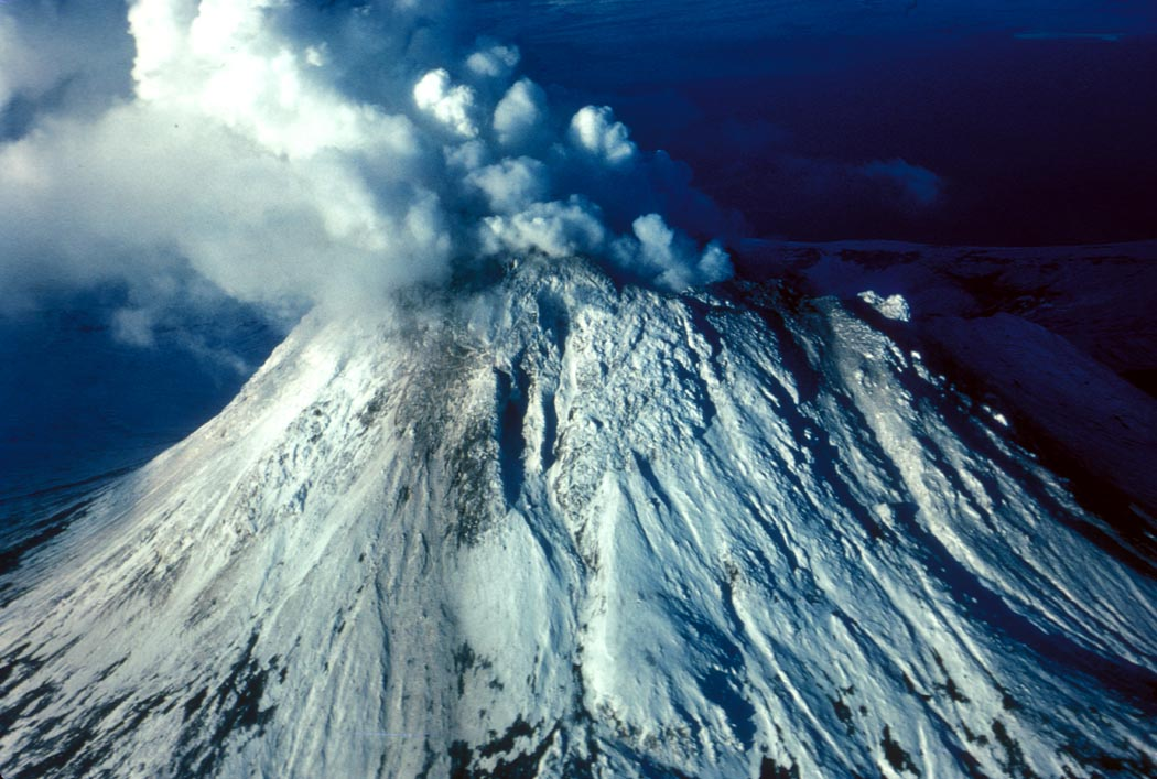 Aerial view of steam rising from Mt. Saint Augustine Volcano located on Augustine Island in lower Cook Inlet.